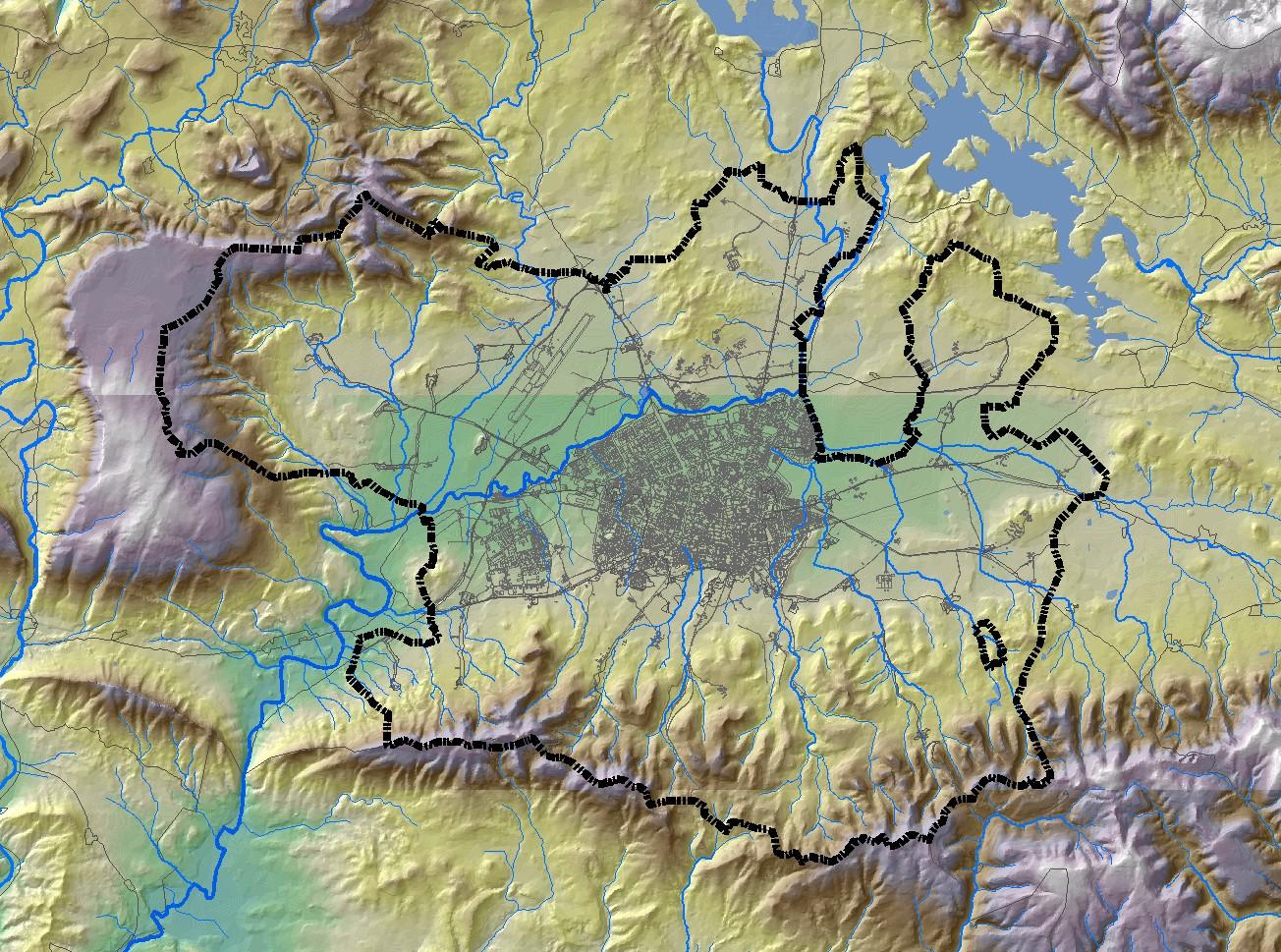 Gasteizko erliebea / Topography of Vitoria-Gasteiz